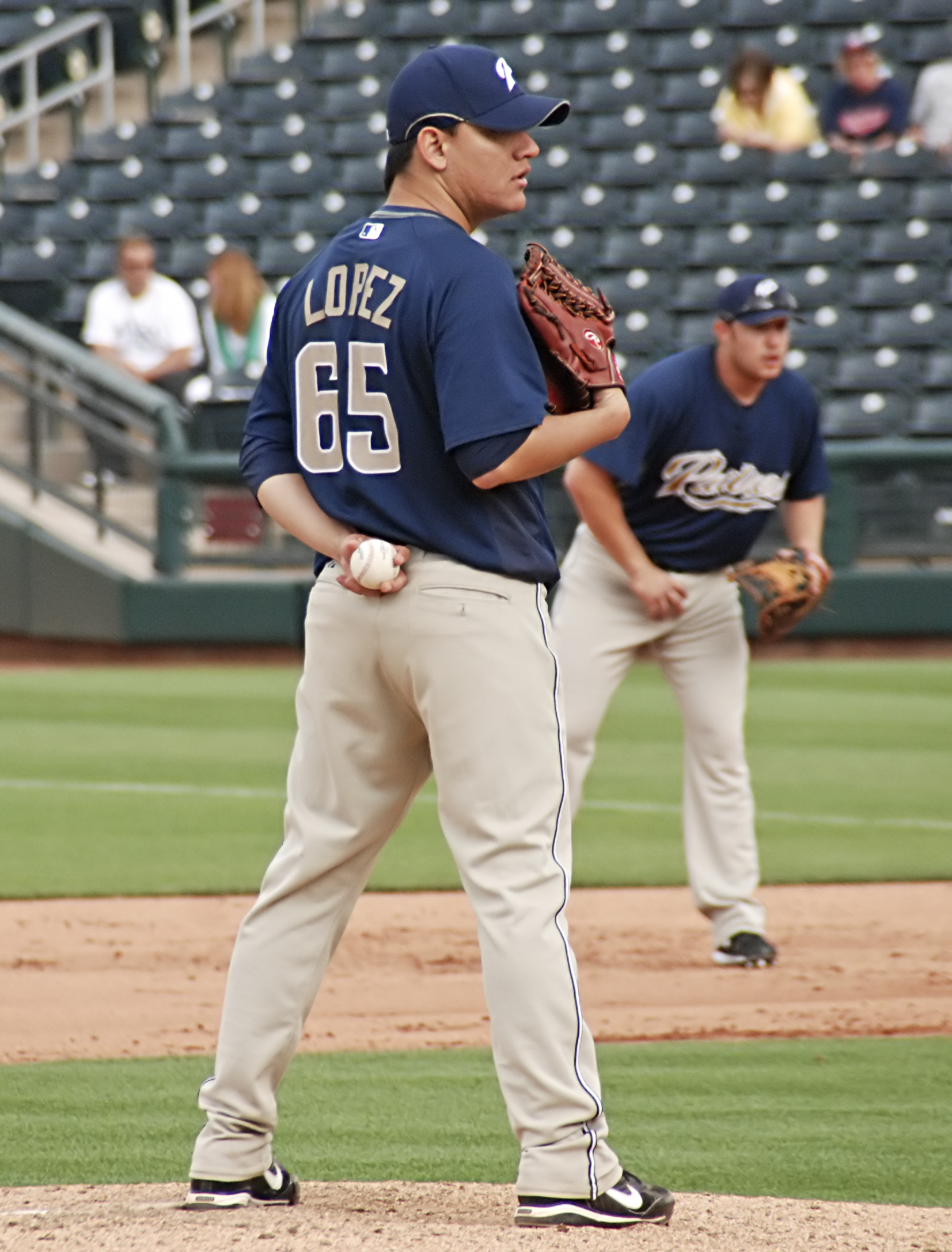 Arturo Lopez, pitcher for the San Diego Padres, in a spring training game, March 9, 2009, in Peoria Arizona